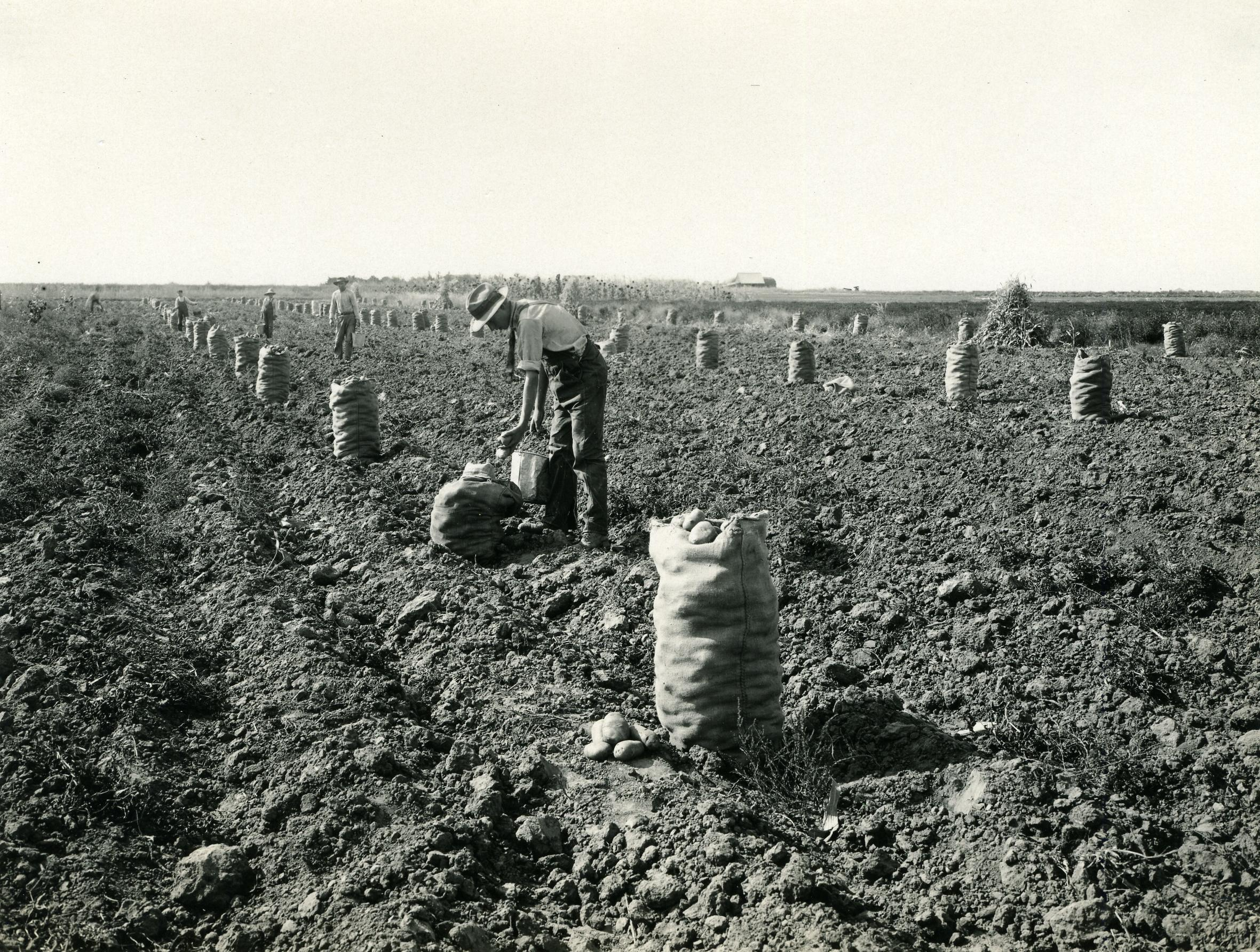 Harvesting potatoes in Idaho's Boise Valley, circa 1920.